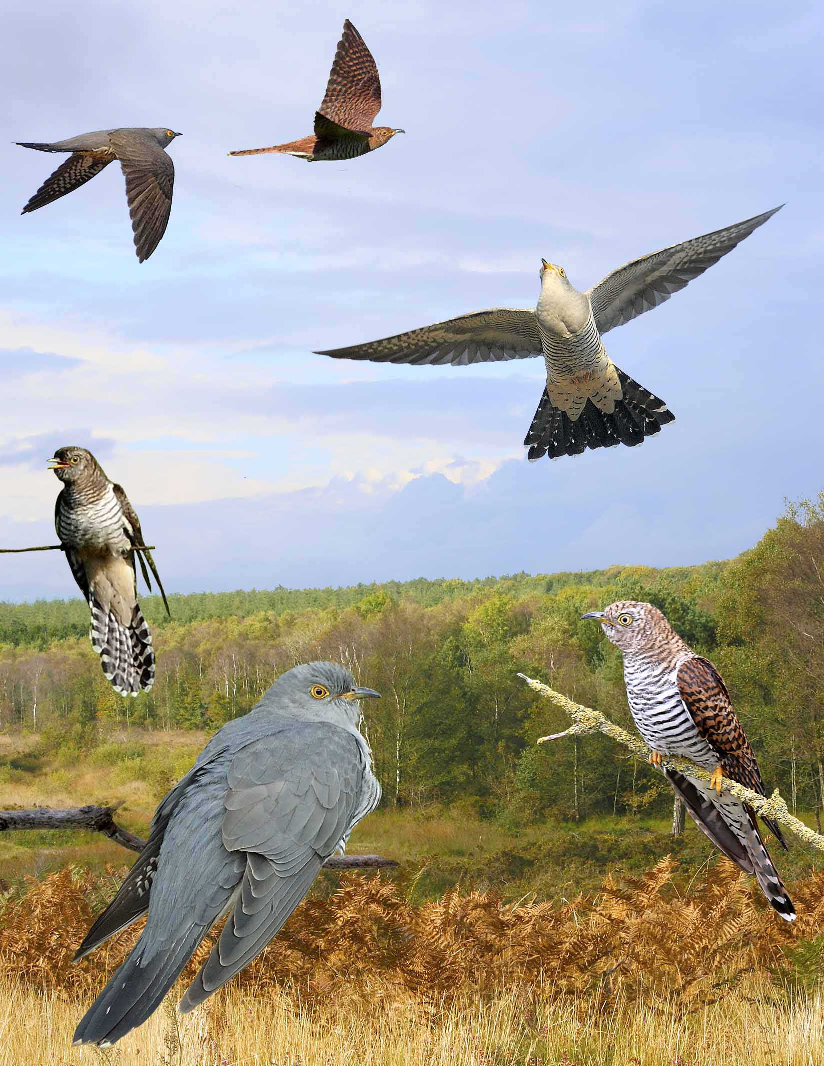 Common Cuckoo from the Crossley ID Guide Britain and Ireland